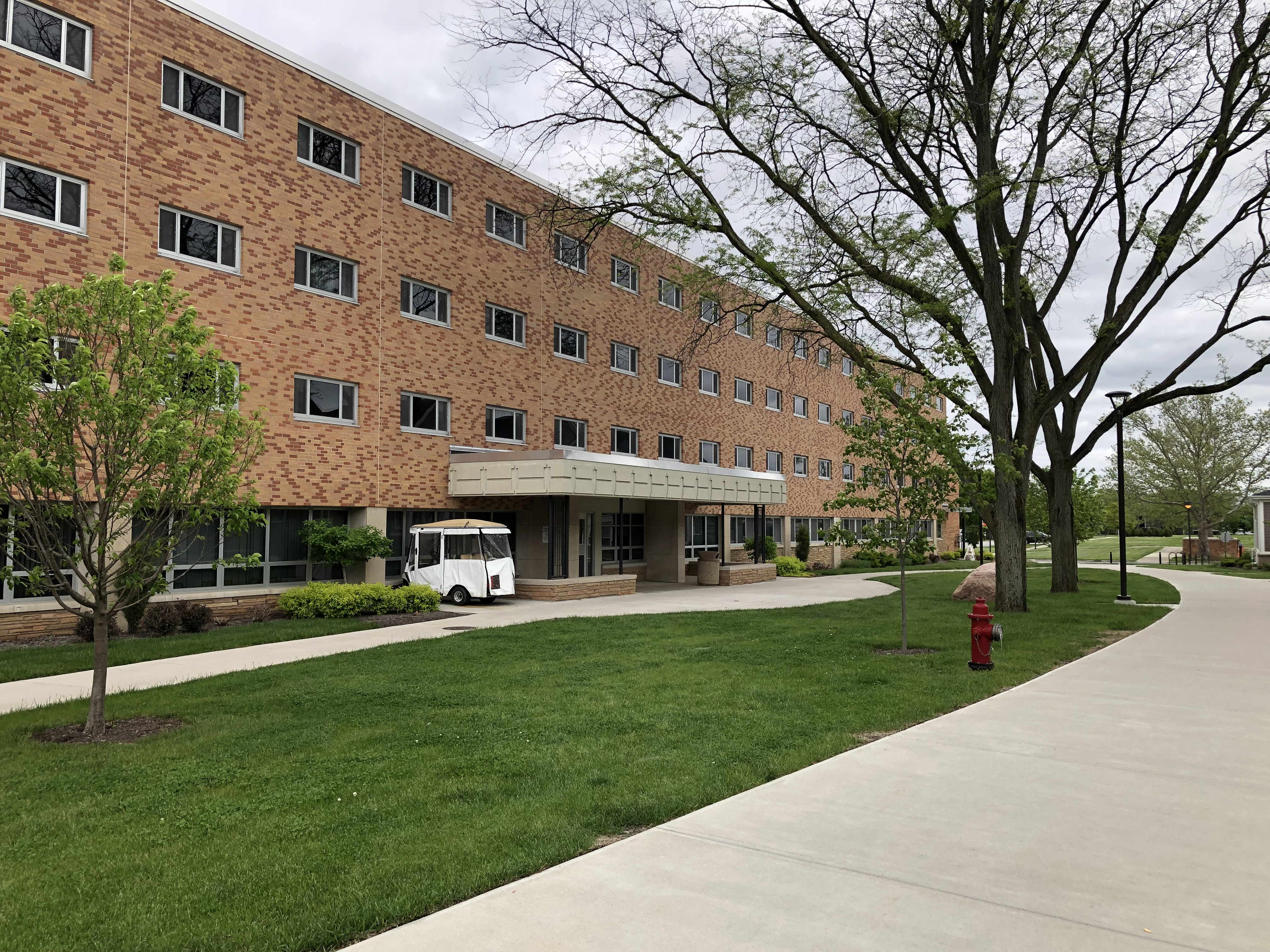 Conklin Hall at BGSU